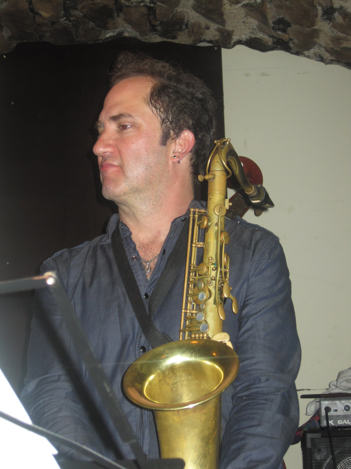 american jazz tenorsaxophonist Peter Apfelbaum, NY City